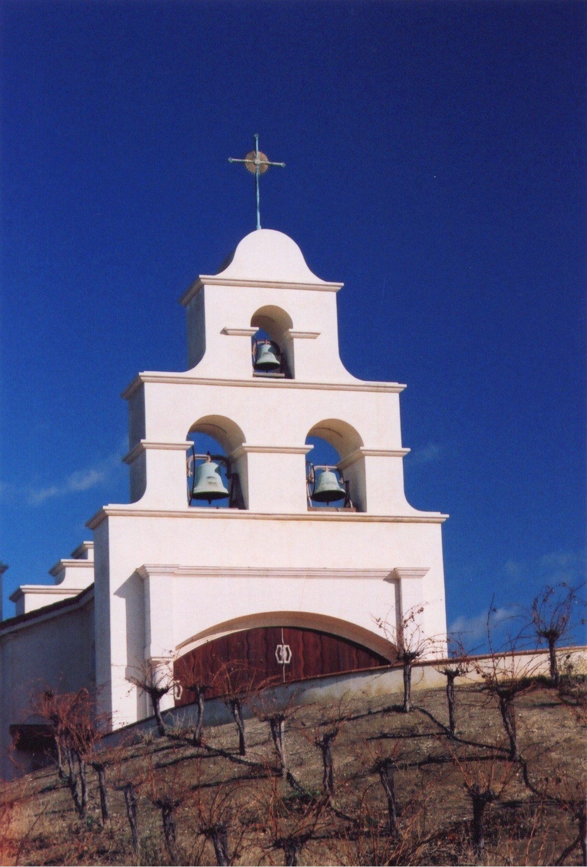 Bell gable of church in Shandon, San Luis Obispo County, California.: Hey Paul